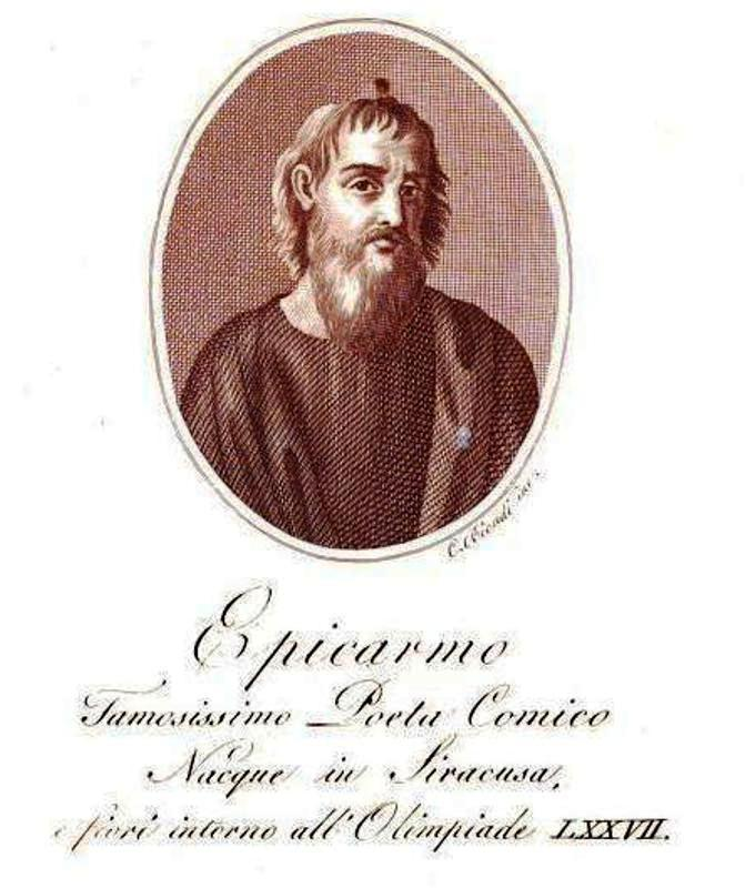 the pictorial history of Epicarmo , best friend of Hiron I and his writer. He was poet, comic artist and Ode's writer of some notice of AITNAION .This pictorial was a optical manifacture in 1828